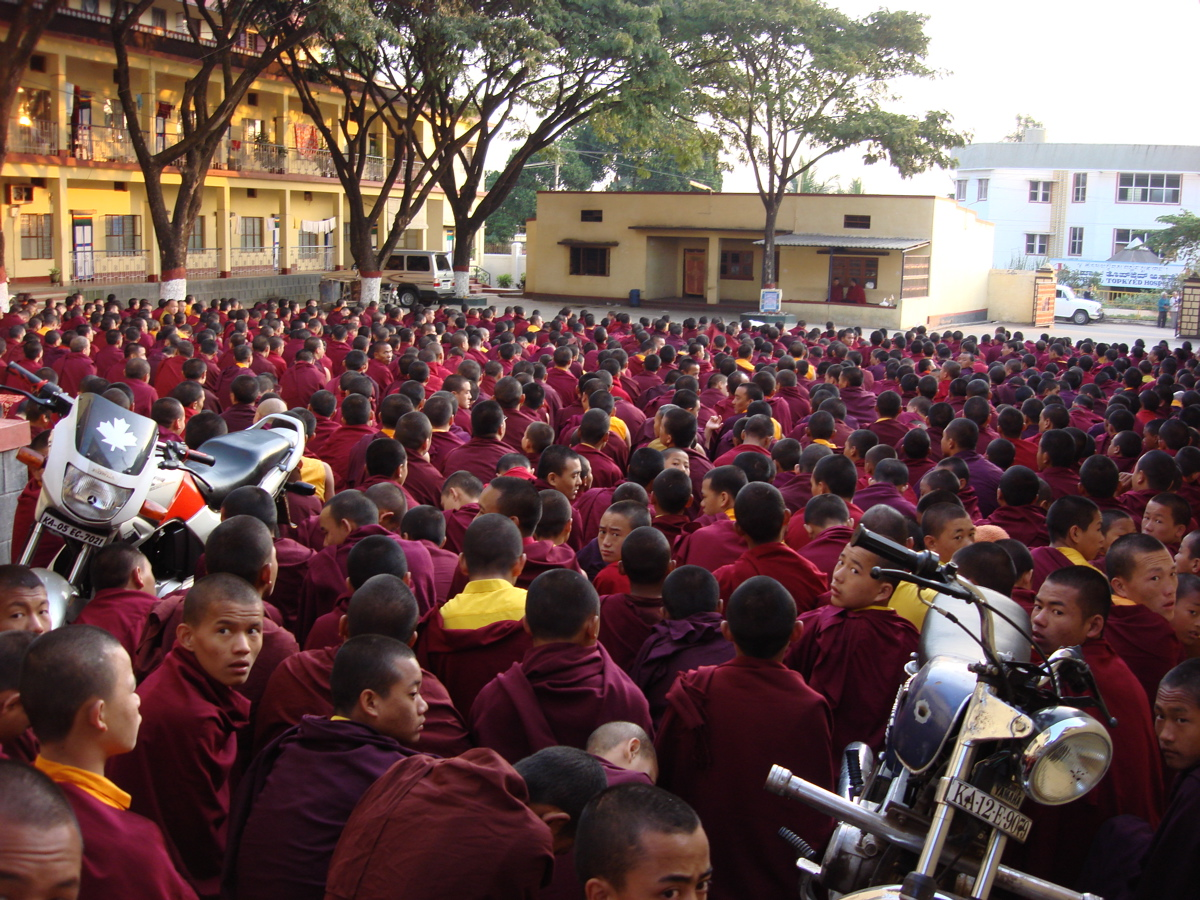 description:The monks of Namdroling Monastery in 2006. photographer: Evan Osherow flickr_url: [1]